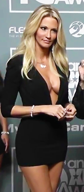 jessica drake at xbiz awards 2012